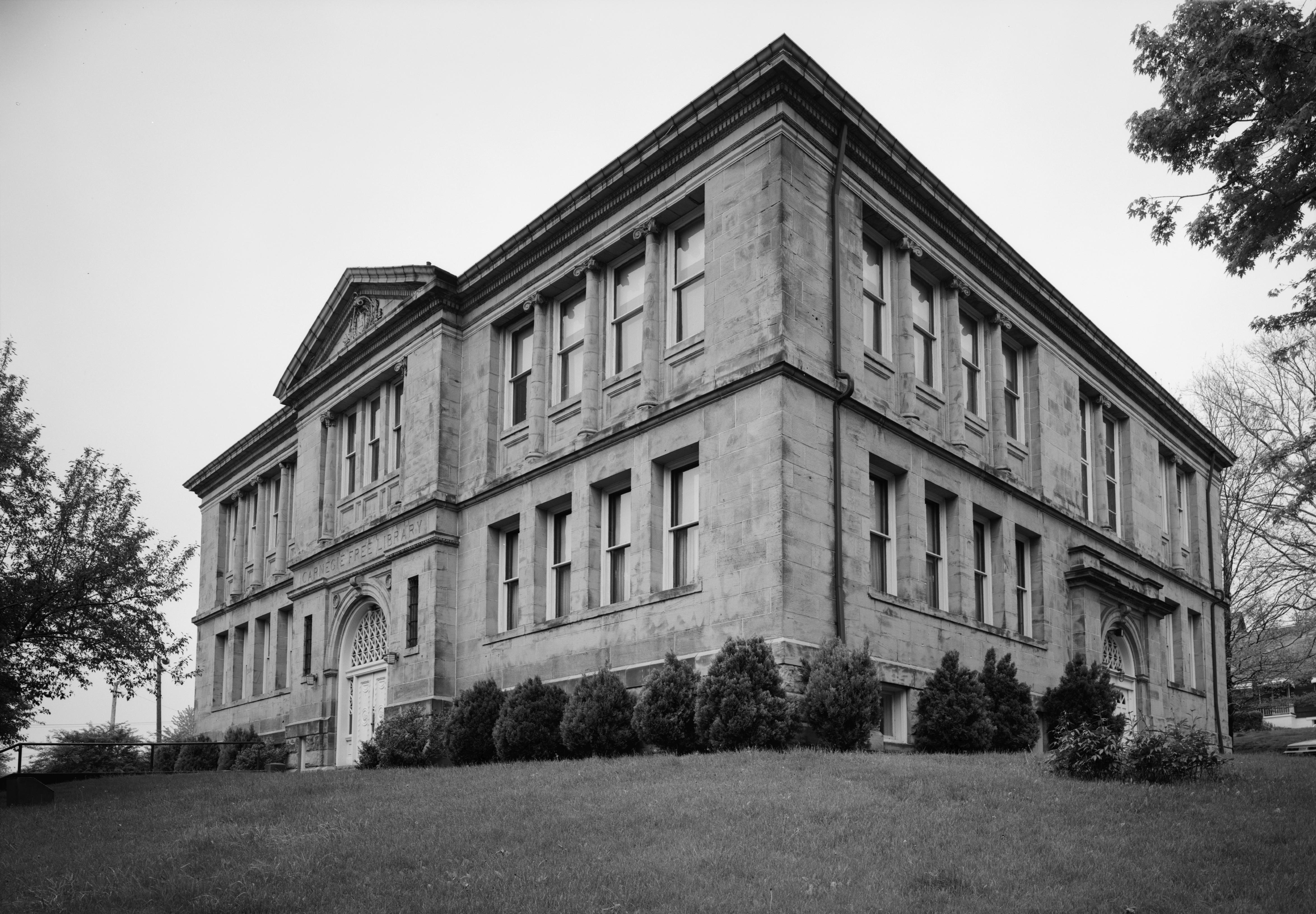 Front and side of the Connellsville Carnegie Free Library, located along S. Pittsburgh Street in Connellsville, Pennsylvania, United States. Built in 1901, it is listed on the National Register of Historic Places.